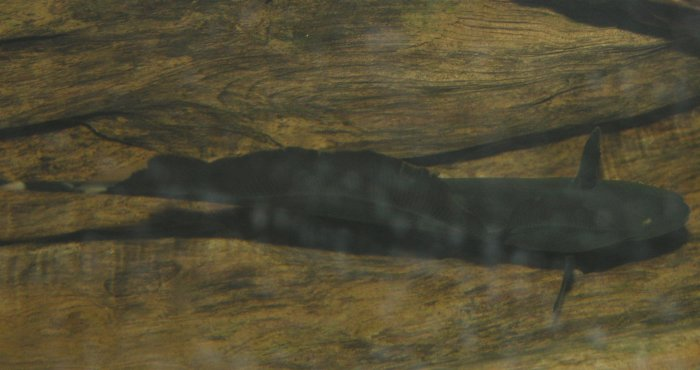 Black Ghost Knifefishen (Apteronotus albifrons en ).